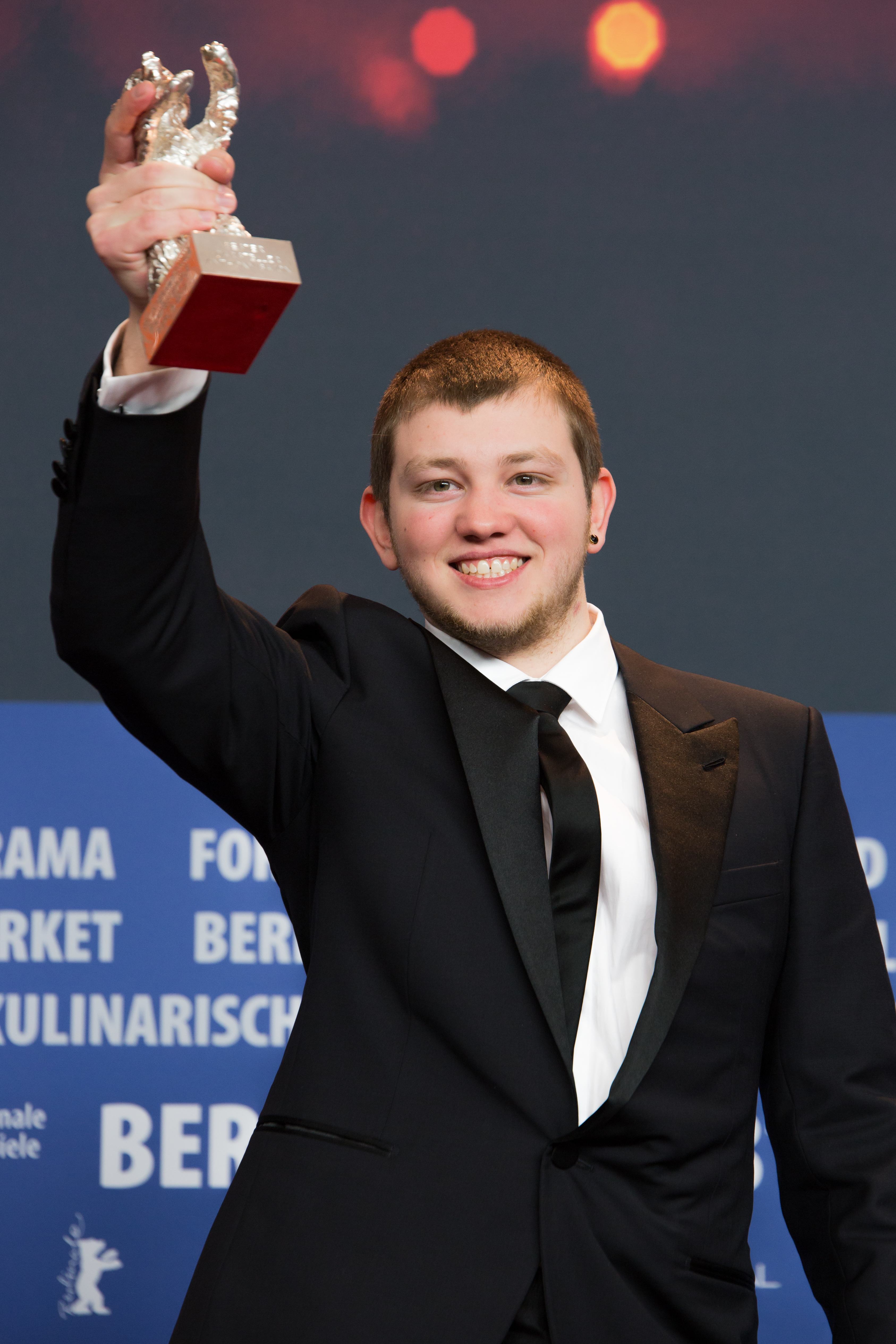 Actor Anthony Bajon with the Silver Bear for the his role in "La prière" at the Berlinale 2018